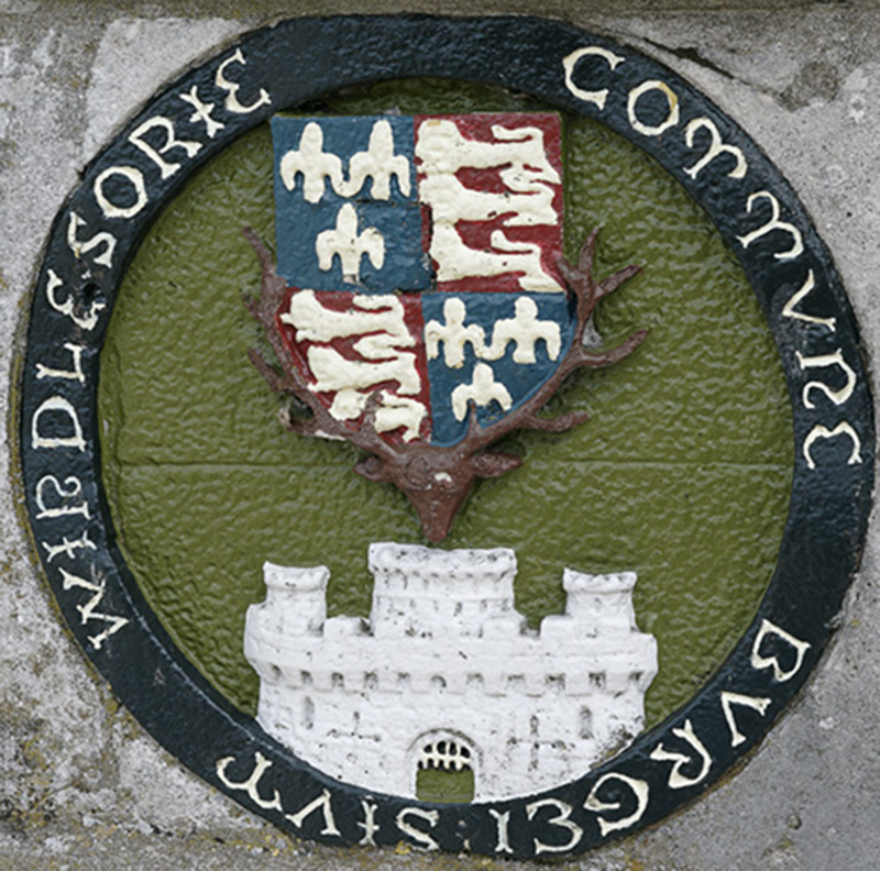 Plaque on the Windsor Town Bridge Source: WyrdLight .